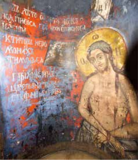 Theodosiy_of_Veles_fresco_painting in Church_of_St_Roman_Monastery,_Đunis.